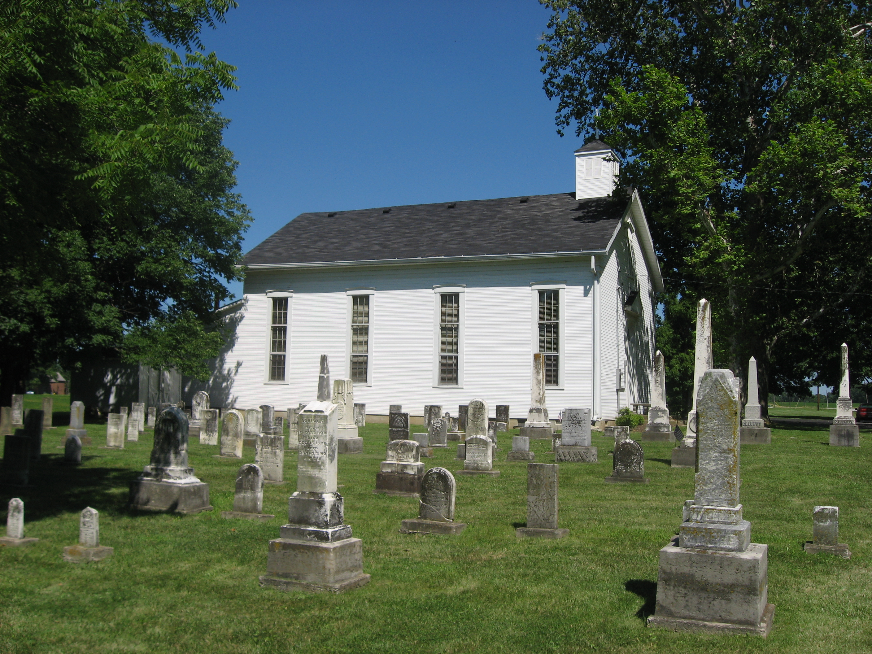 Side of the Jonahs Run Baptist Church as seen from its cemetery, located at 9614 W. State Route 73 east of Harveysburg in Chester Township, Clinton County, Ohio, United States. Built in 1838, it is part of the Underwood Farms Rural Historic District, a historic district that is listed on the National Register of Historic Places. Church website.